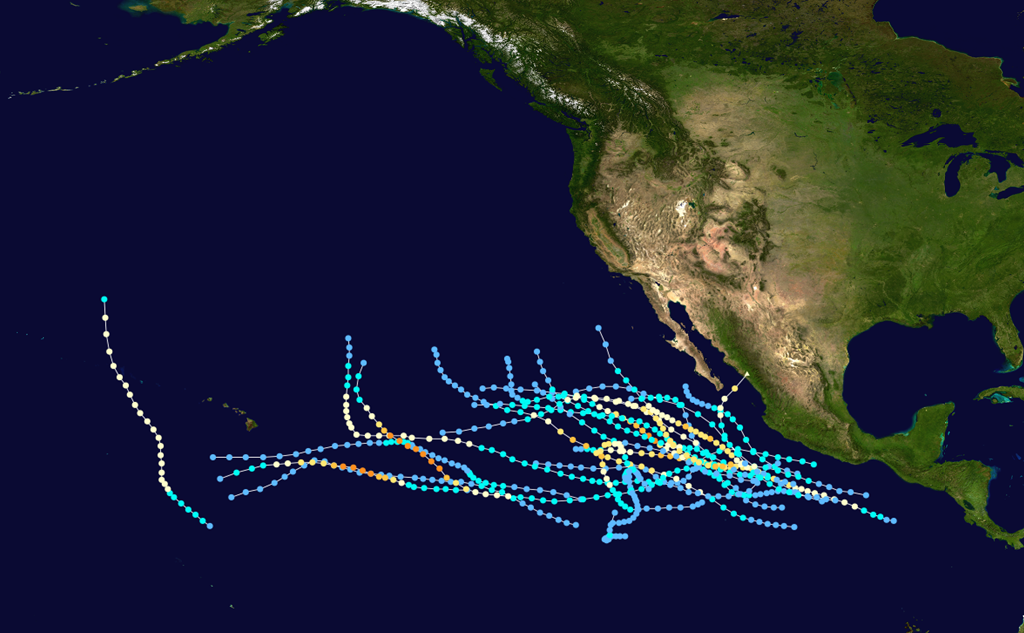 This map shows the tracks of all tropical cyclones in the 1985 Pacific hurricane season. The points show the location of each storm at 6-hour intervals. The colour represents the storm's maximum sustained wind speeds as classified in the Saffir-Simpson Hurricane Scale (see below), and the shape of the data points represent the type of the storm. Saffir–Simpson scale Tropical depression≤38 mph≤62 km/h Category 3111–129 mph178–208 km/h Tropical storm39–73 mph63–118 km/h Category 4130–156 mph209–251 km/h Category 174–95 mph119–153 km/h Category 5≥157 mph≥252 km/h Category 296–110 mph154–177 km/h Unknown Storm type Tropical cyclone Subtropical cyclone Extratropical cyclone / Remnant low / Tropical disturbance / Monsoon depression